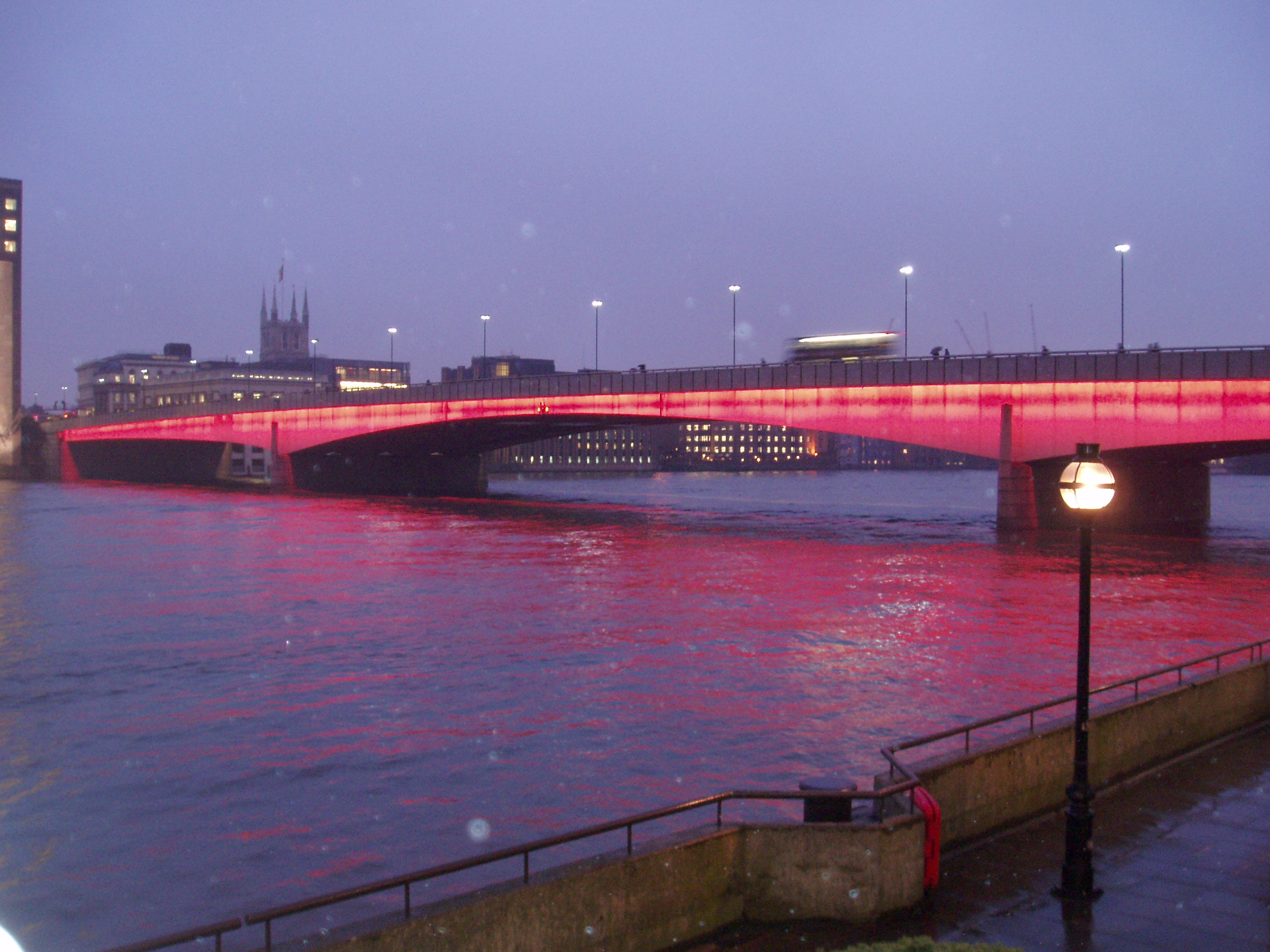 London Bridge illuminated at duskLondon Bridge